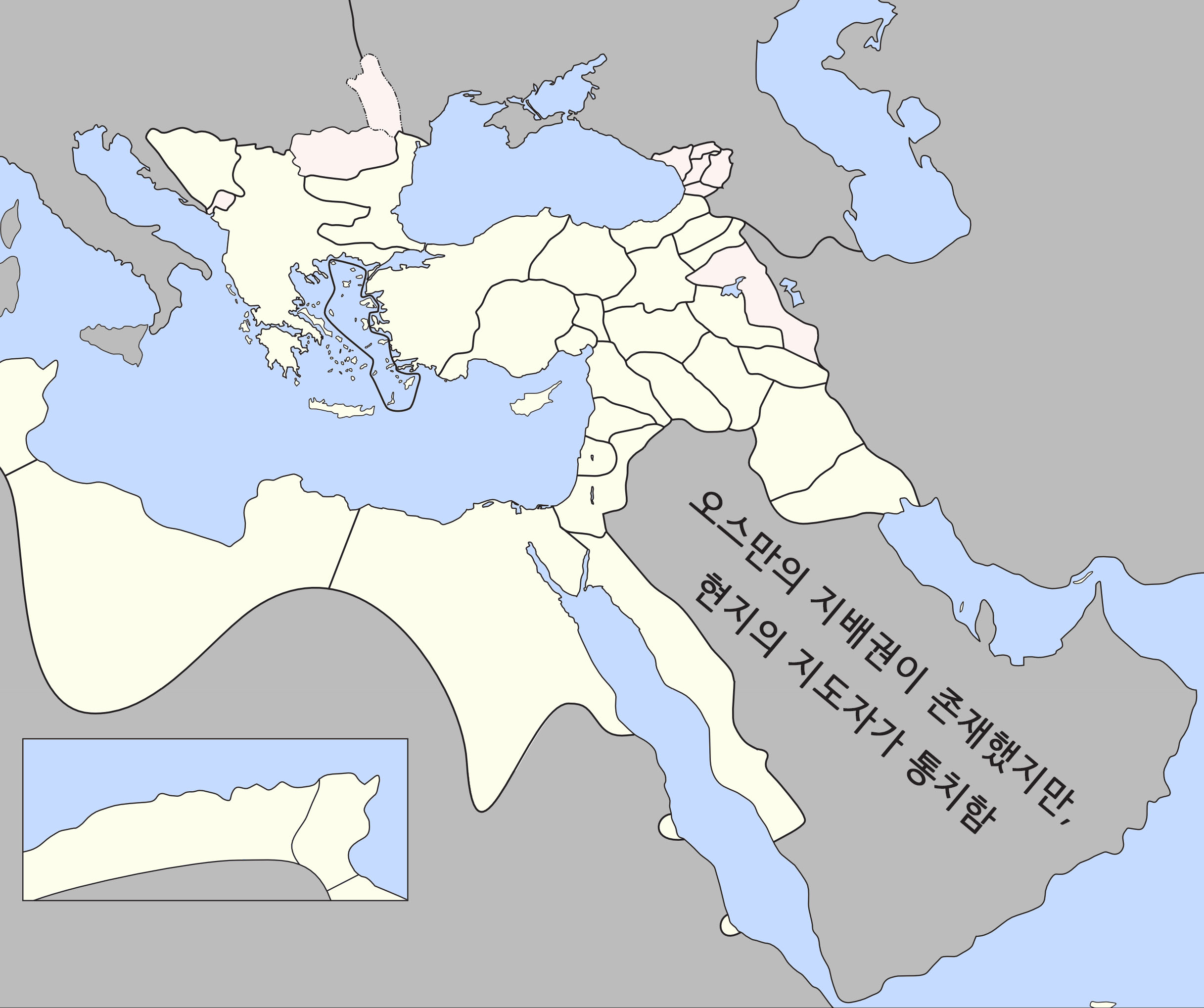 Eyalets of the Ottoman Empire in 1795 (with the Eyalet of the Archipelago circled.)